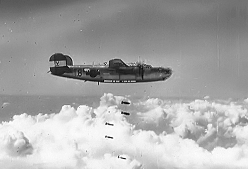 853d Bomb Squadron B-24 ... bombs away...